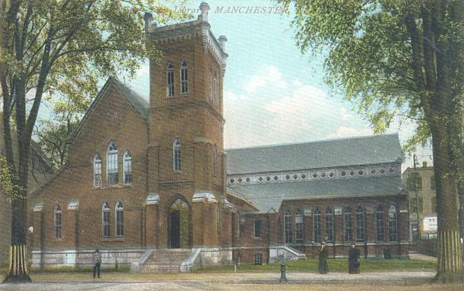 Old Library, Franklin Street, Manchester, NH; from a 1908 postcard. It was built in 1871 on a lot donated by the Amoskeag Manufacturing Company. In 1914, the Manchester City Library would move to the larger Elenora Blood Carpenter Building on Pine Street.